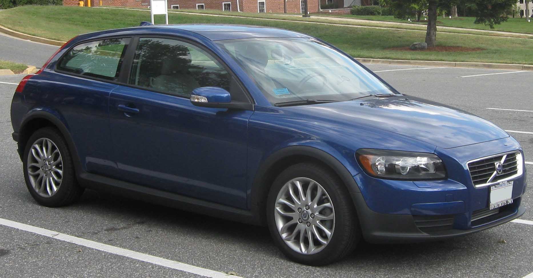 2008 Volvo C30 photographed in College Park, Maryland, USA.